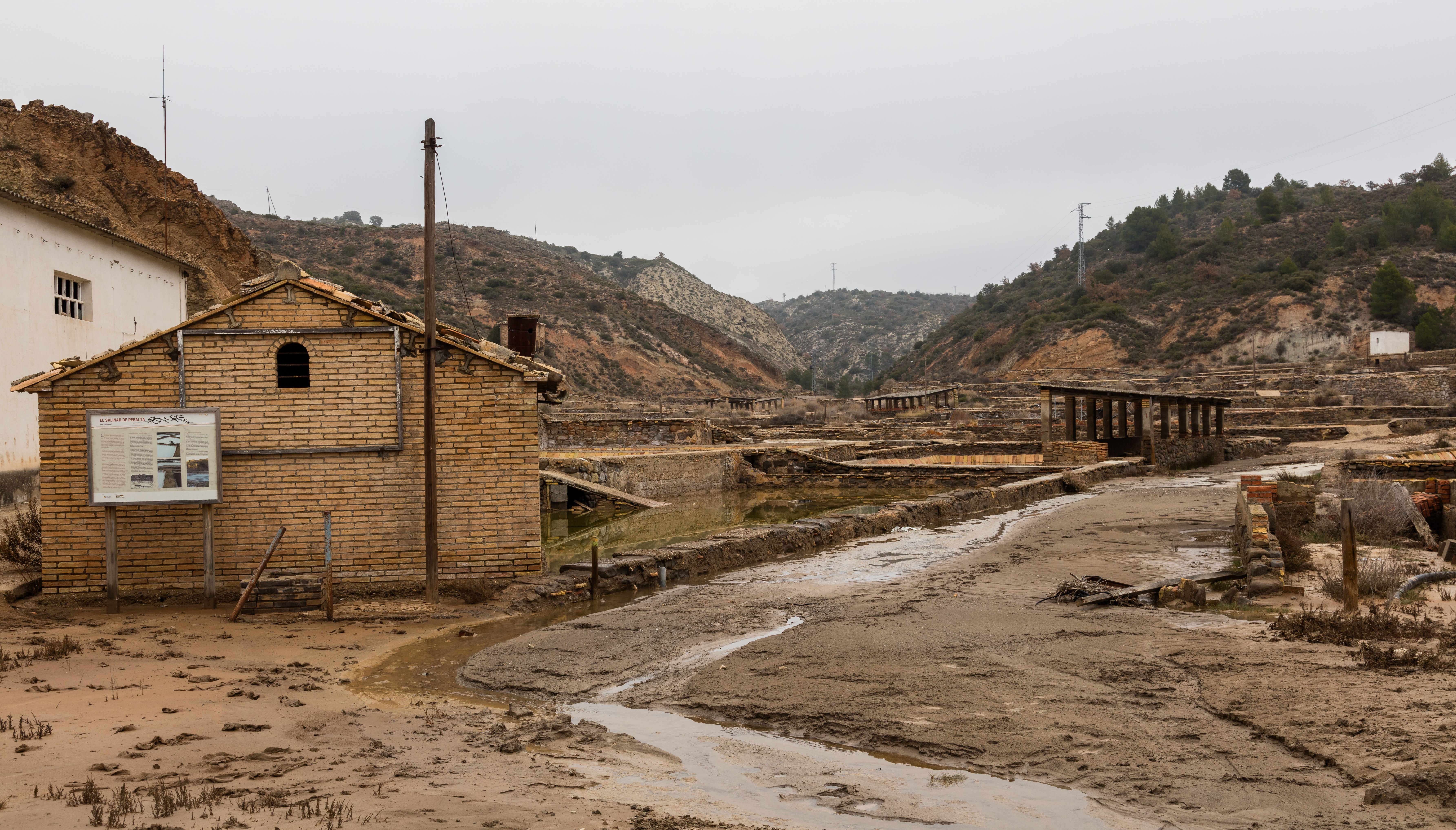 Salt evaporation ponds of Peralta de la Sal, Huesca, Spain